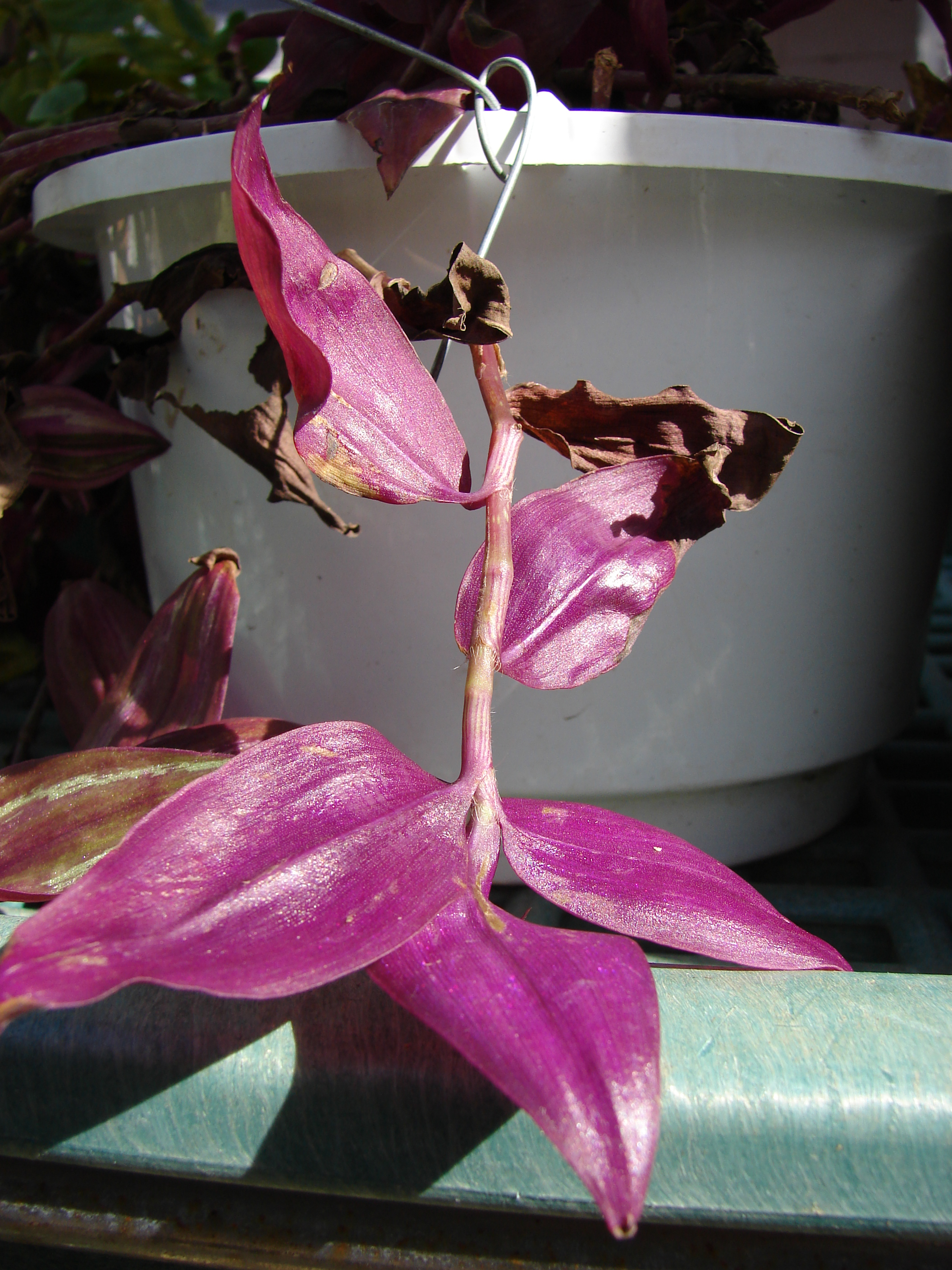 Tradescantia zebrina (habit). Location: Maui, Lowes Garden Center Kahului